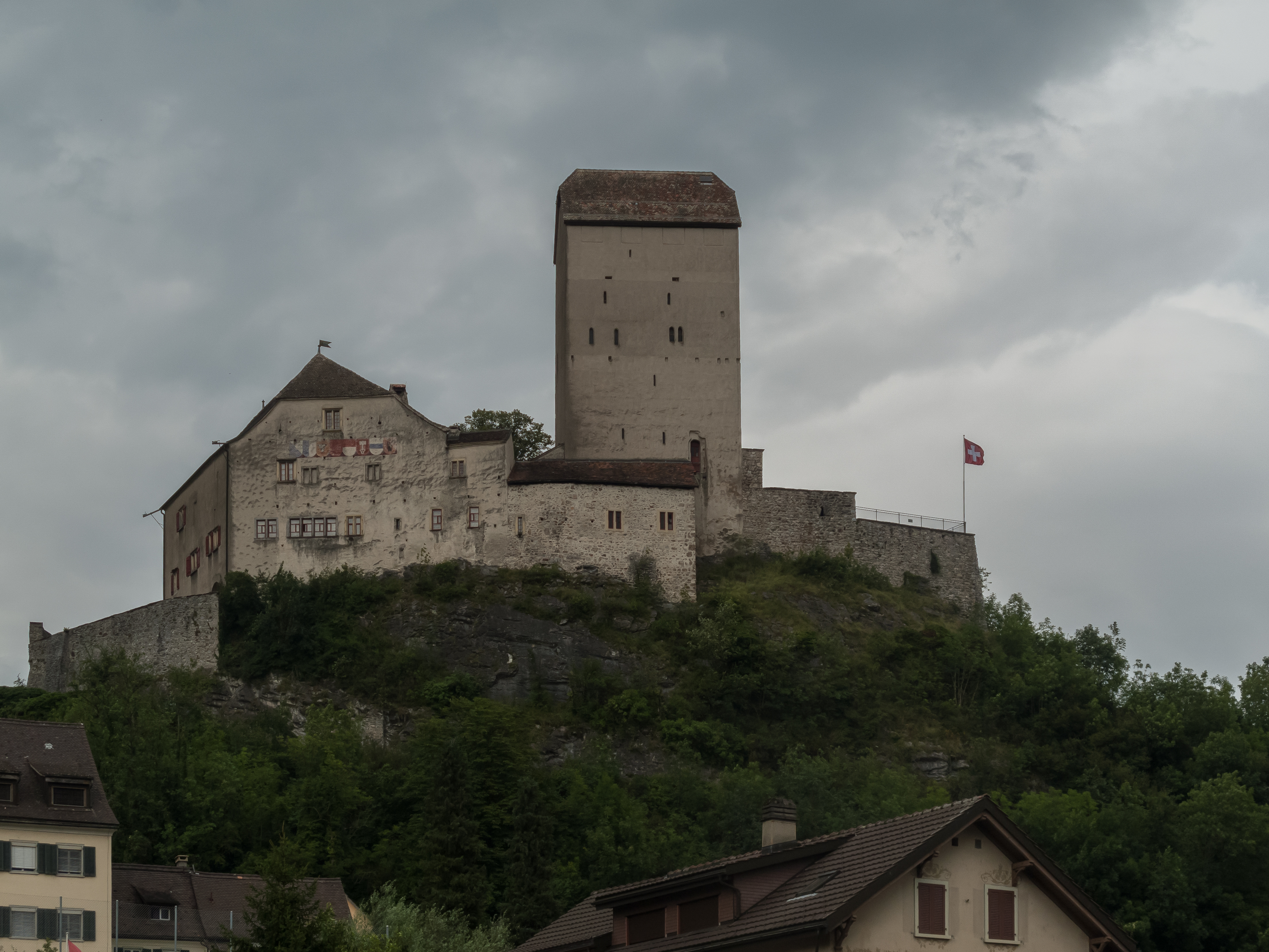 Sargans, castle: Schloss Sargans